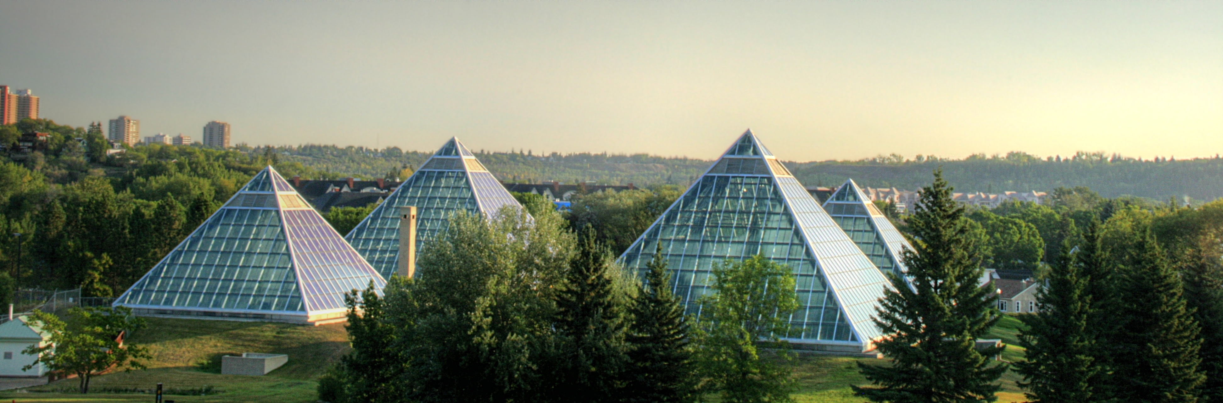 The Muttart Conservatories in the North Saskatchewan River valley in Edmonton, Alberta, Canada.